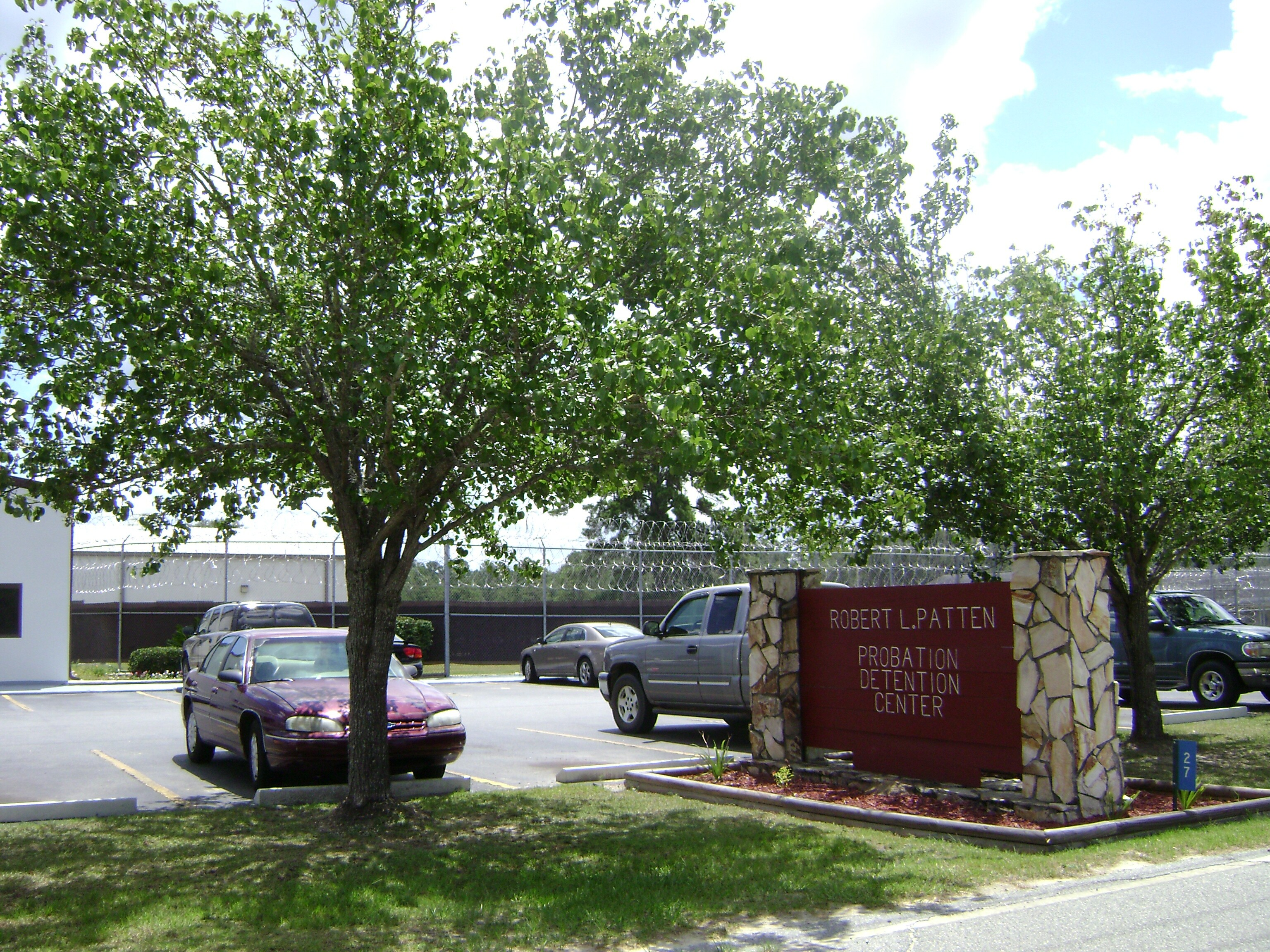 Robert L. Patten Probation Detention Center in Lakeland, Lanier County, Georgia